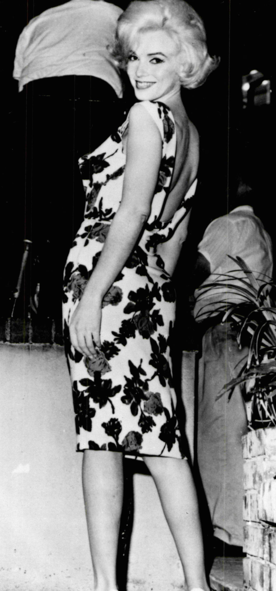 Marilyn Monroe on the set of Something's Got to Give in 1962 from the August 7, 1962 issue of Eureka Humboldt Standard page 3. Note this is a larger, better quality uncropped copy of the photo seen on page 3 of the Eureka Humboldt Standard . A search for renewal at turned up no listings using the newspaper's title. There's no evidence of continuing copyright for the newspaper. Copyright not renewed